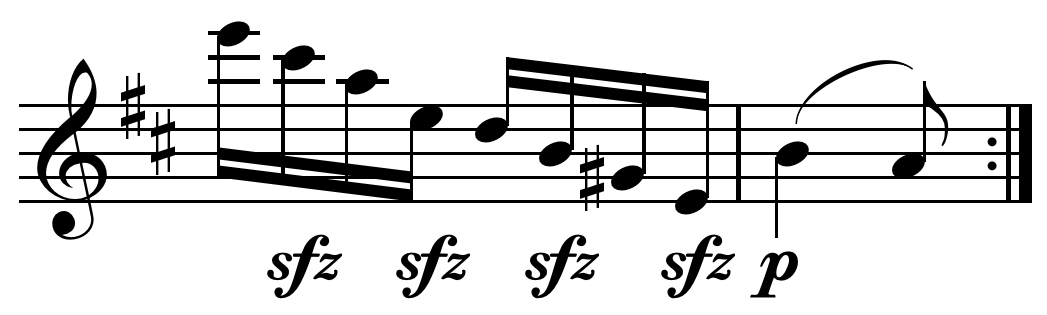 Syncopation (sfz) in Beethoven's String Quartet in A Major, Op. 18, no. 5, III, variation I, m. 7-8.